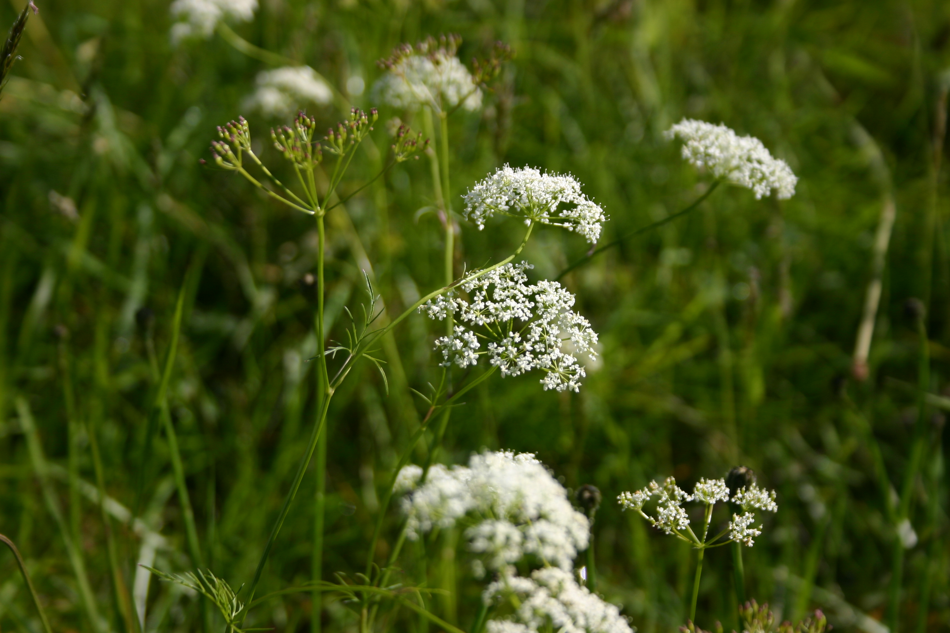 Conopodium majus at island Aukra, NW Norway